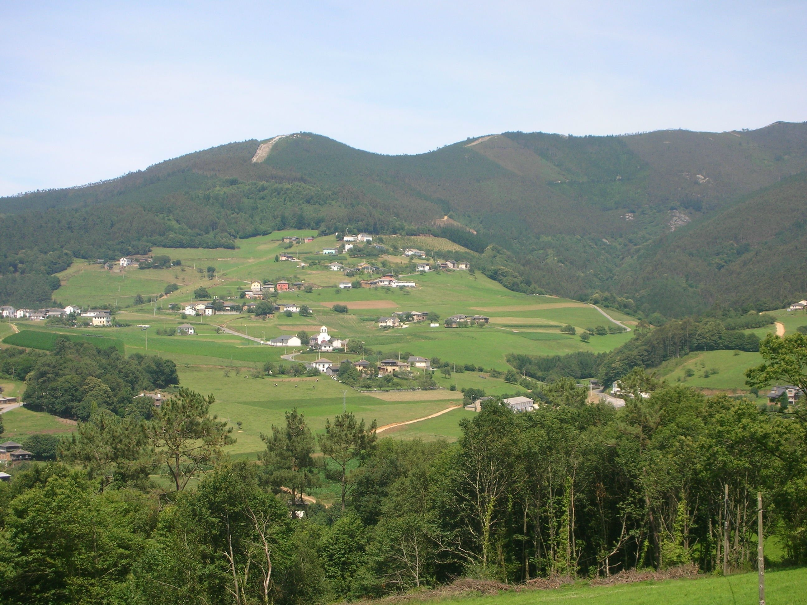 Overview part of the people of Carcedo